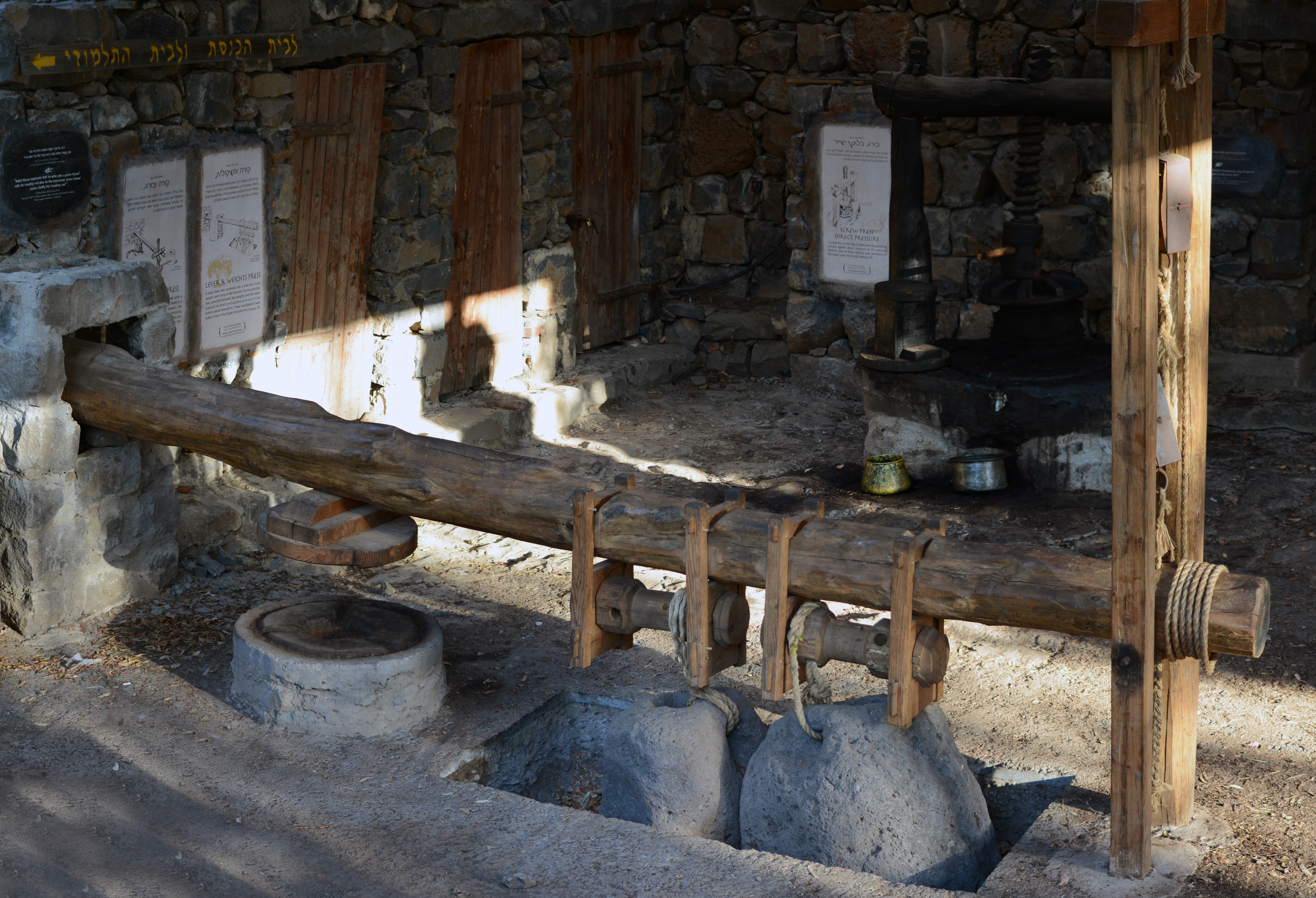 Oil press. Katzrin ancient village. Golan Heights.